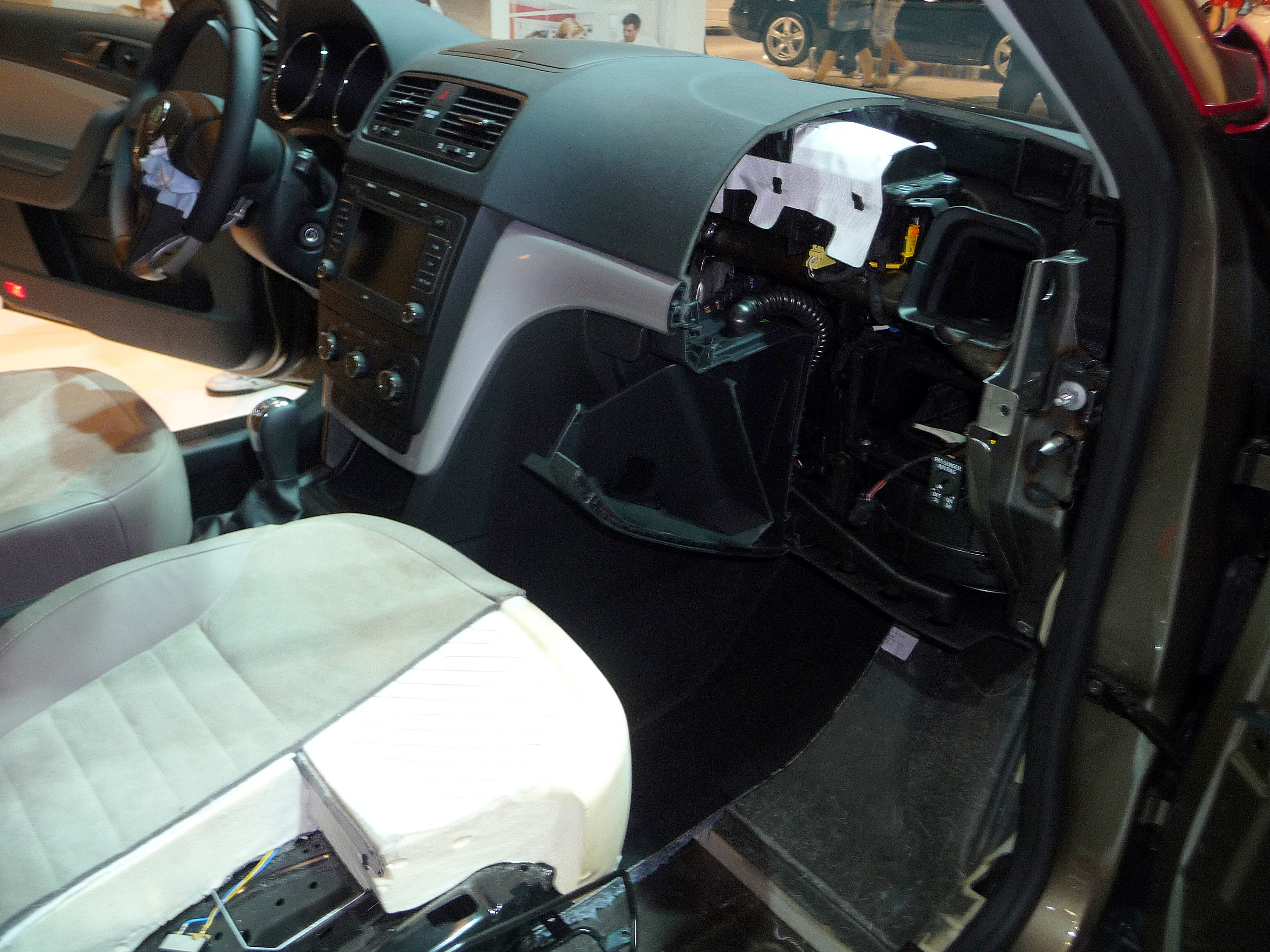 Cross section of Škoda Yeti, Autosalon Brno 2011, The Brno Exhibition Grounds -10 -5 -3 -2 ◄ ► +2 +3 +5 +10